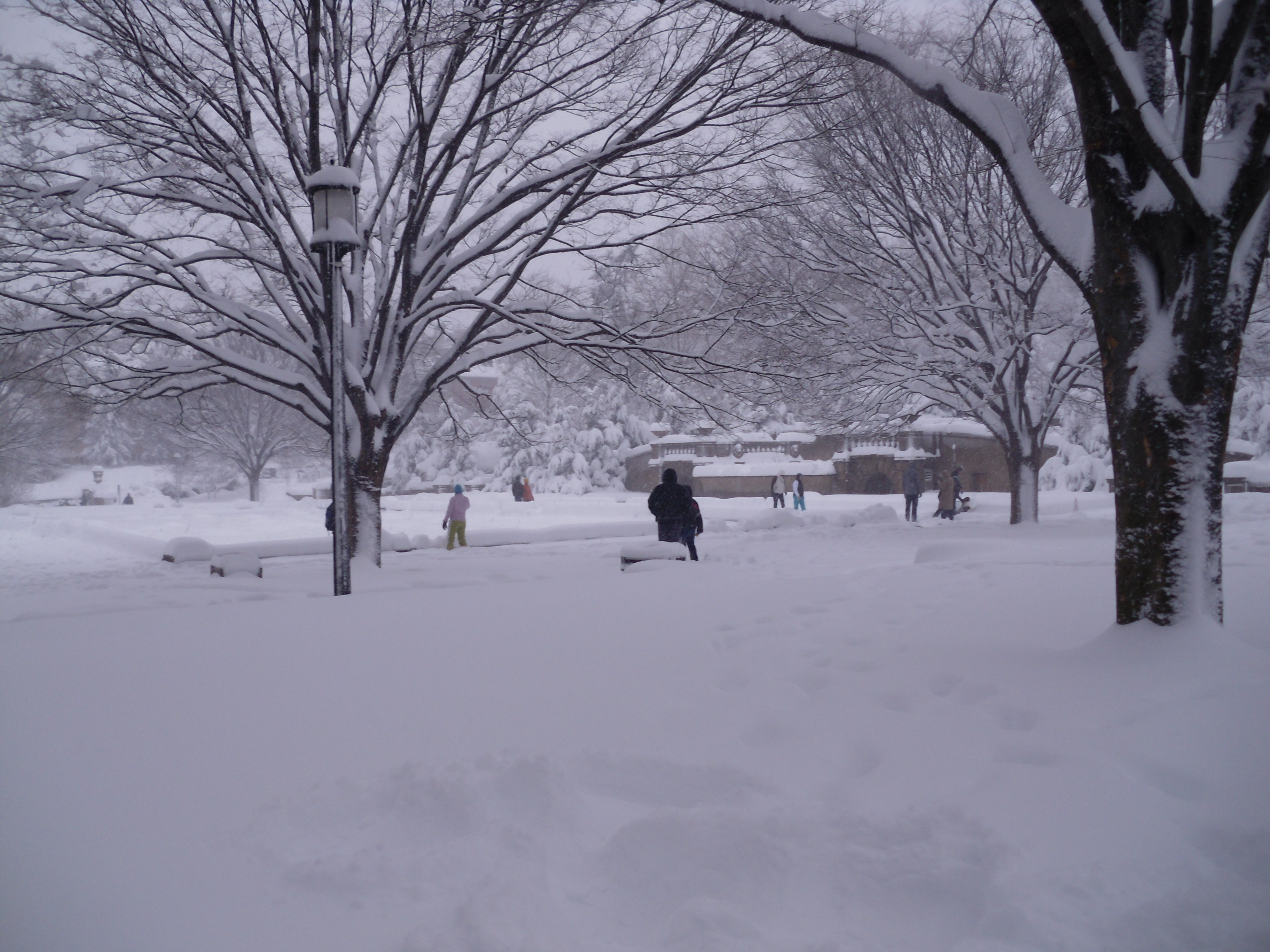 Washington, D.C.'s Meridian Hill Park during a 2010 blizzard.